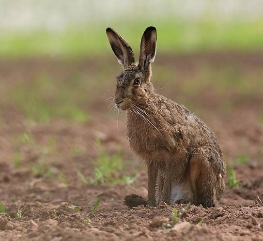 European hare (Lepus europaeus)